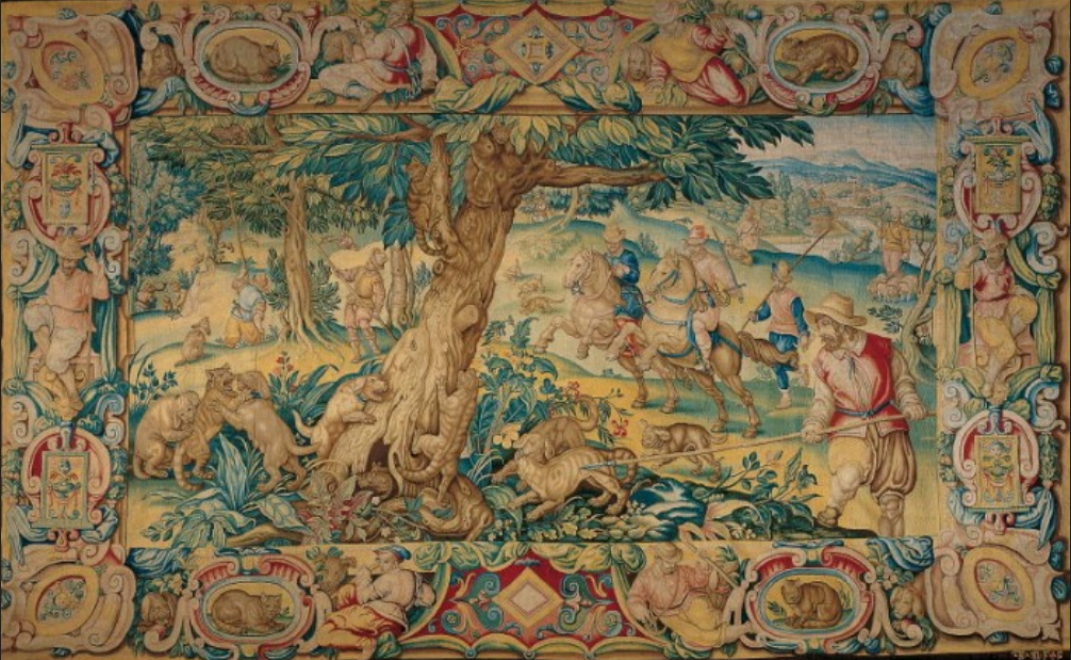 Tapestry